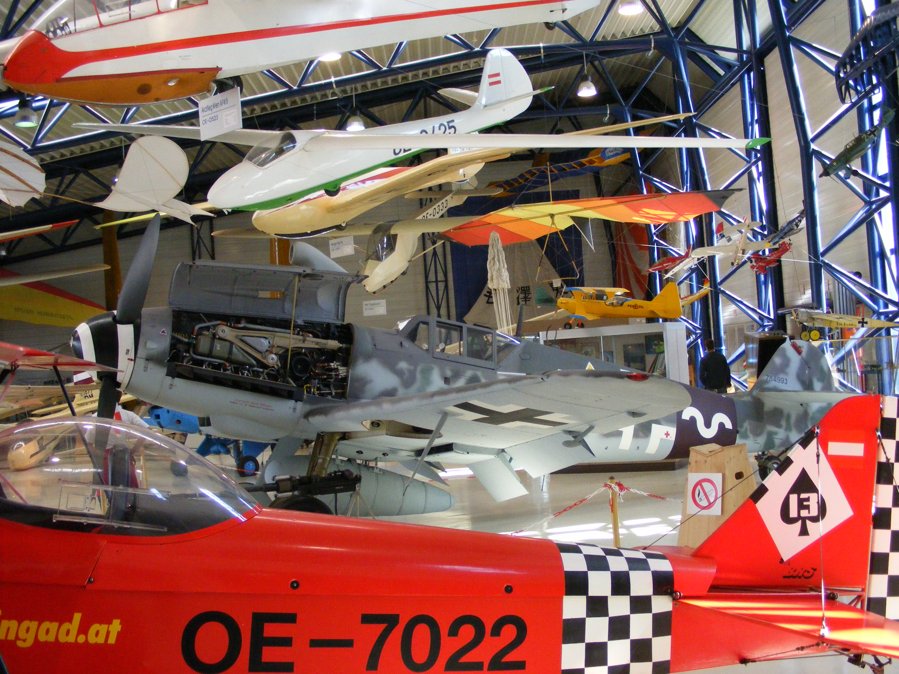 Interior of aviaticum museum, Wiener Neustadt, Lower Austria. Oberlerchner Musger Mg 23 glider (OE-0425)